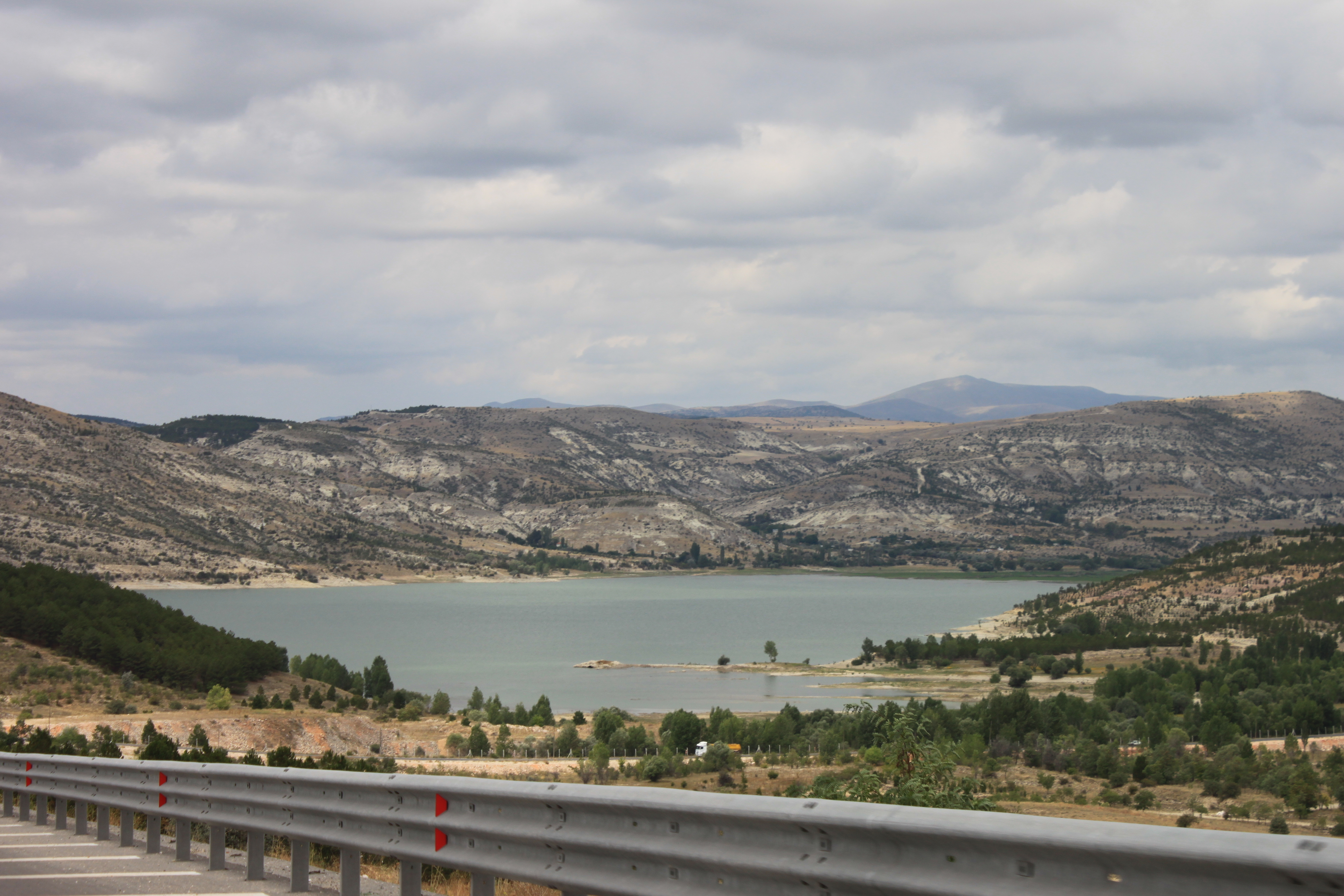 Lake, reservoir, ruins